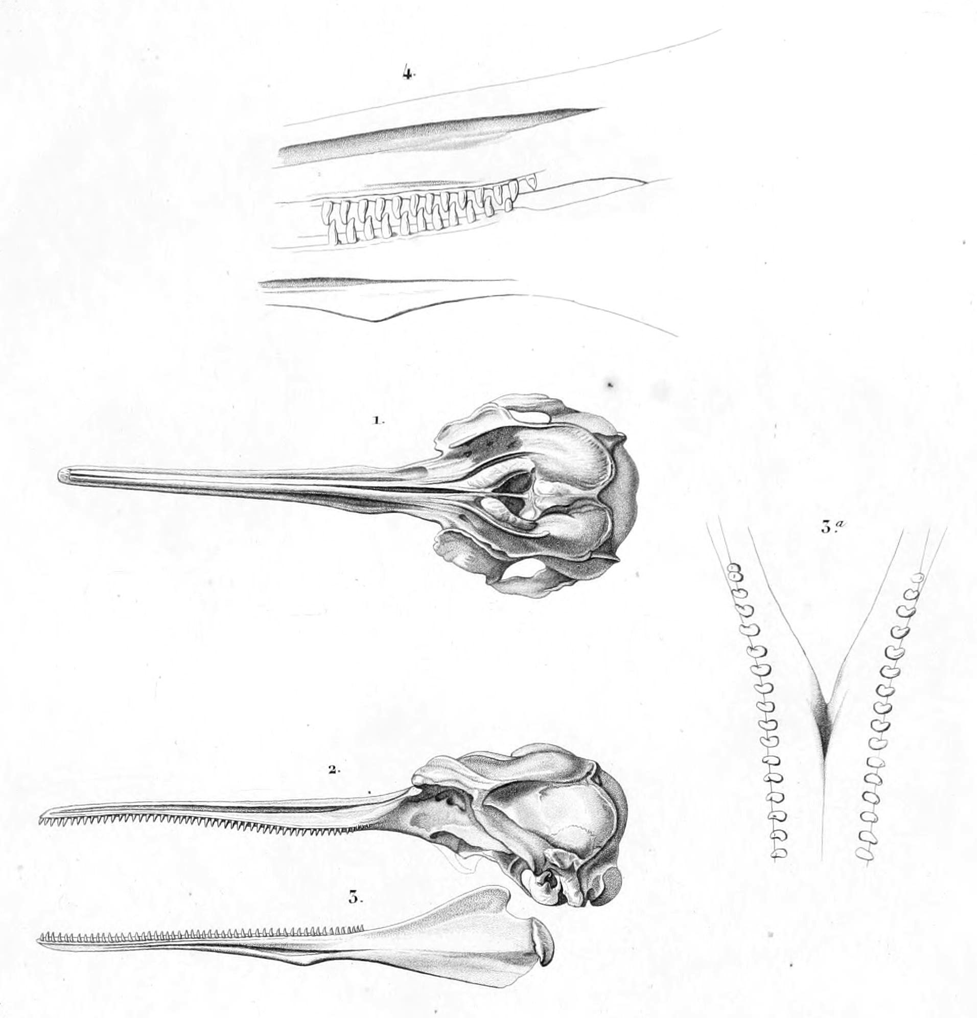 « Delphinus blainvillei » = Pontoporia blainvillei (La Plata dolphin) - skull